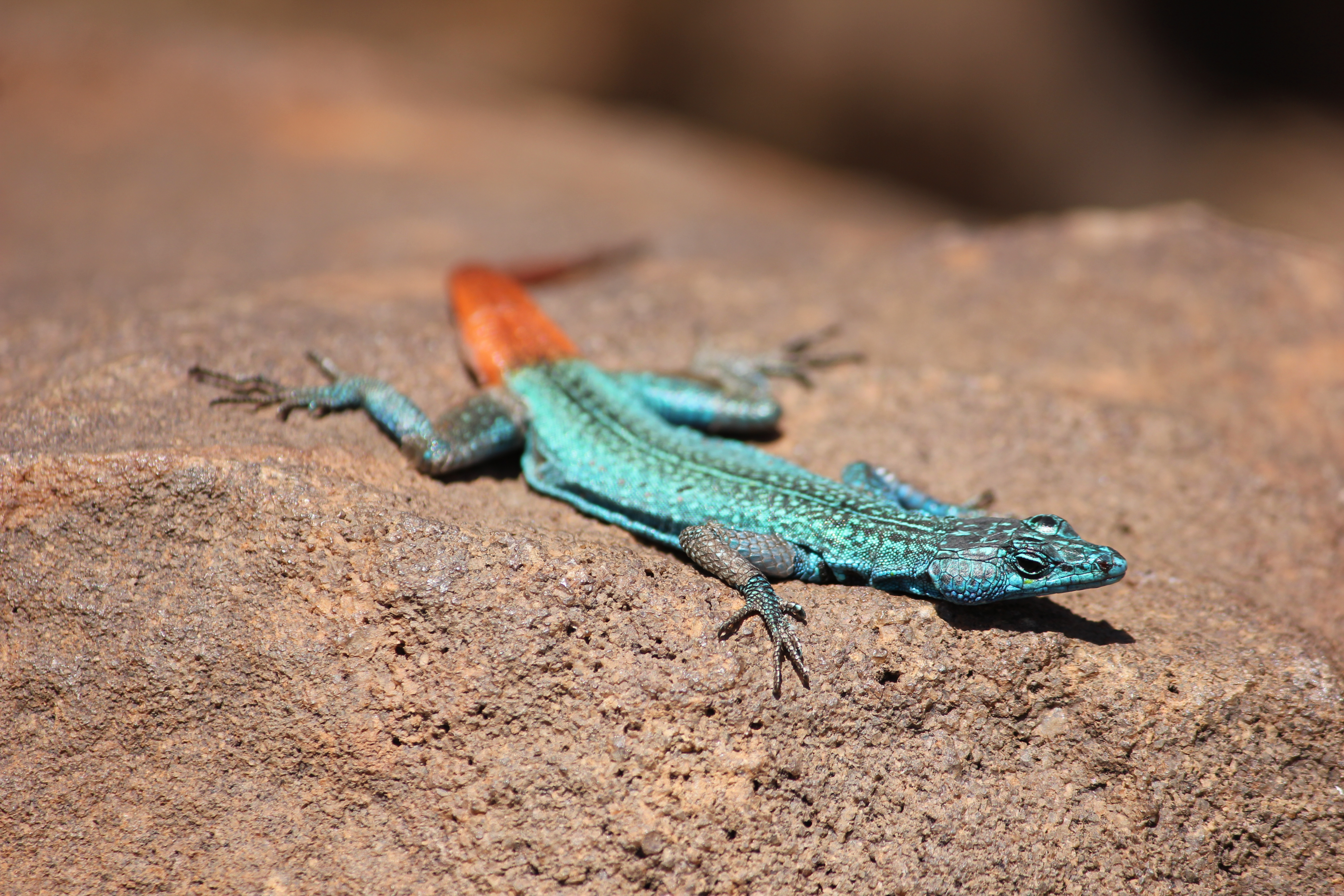 A Soutpansberg endemic, the Soutpansberg Flat Lizard, Platysaurus relictus, photographed in the Sand River Gorge, Medike Mountain Sanctuary, Soutpansberg, South Africa.